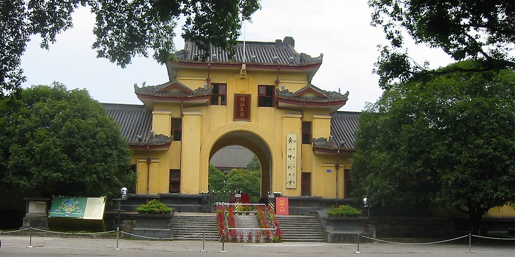 Front gate of Guilin's JingJiang Princes City. Taken by me